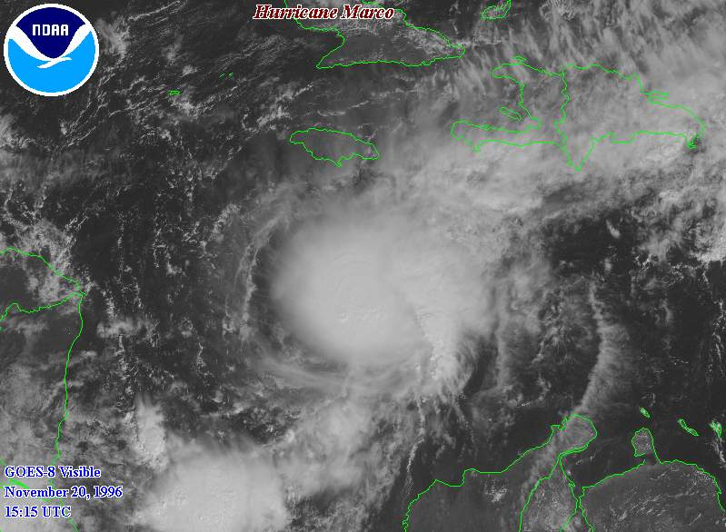 From this image shows late-season Hurricane Marco in the Caribbean Sea.